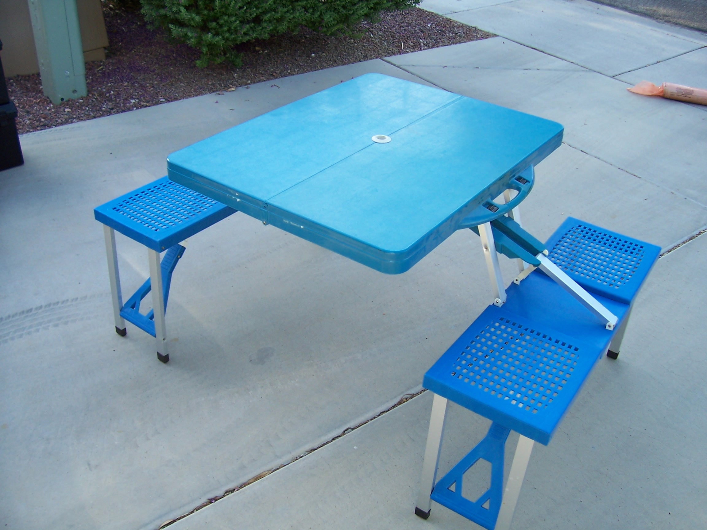 Photograph of a blue folding picnic table